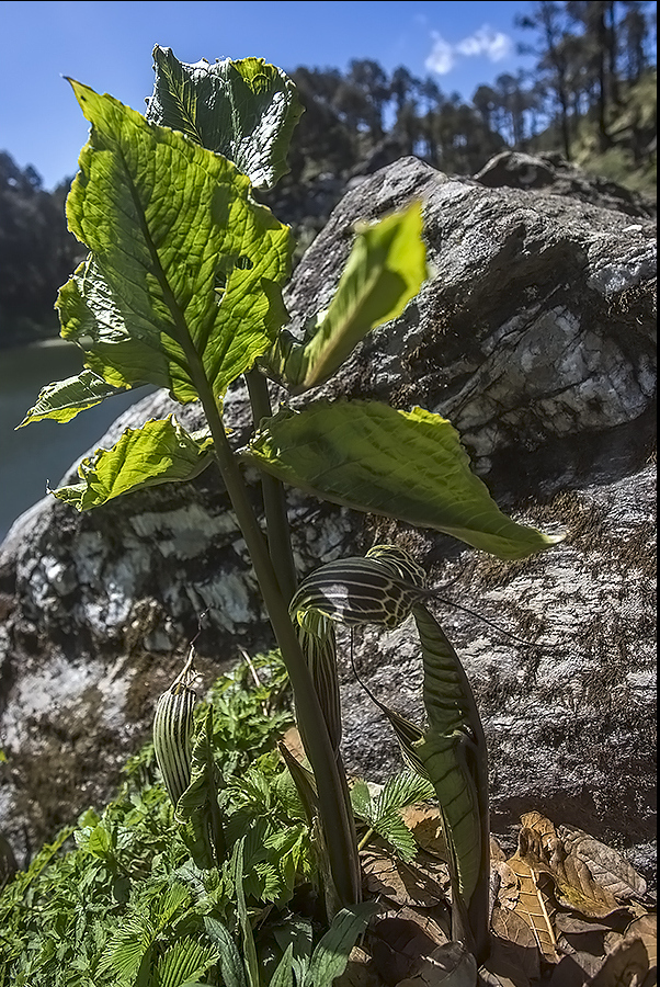 At Shoja on the way to Serolsar